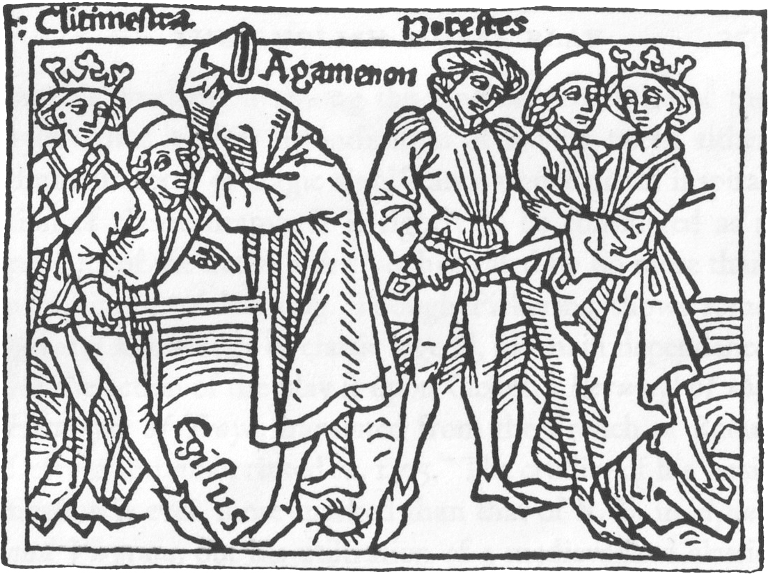 Illustration from Boccaccio's De Mulieribus Claris (1473) of the revenge of Orestes; Clytemnestra and Aegisthus murder Agamemnon (left) leading, later, to Orestes' murder of Clytemnestra and Aegisthus in revenge (right).